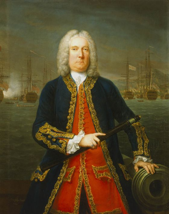 Painted while Vice-Admiral of the Red and Commander-in-Chief of the English Mediterranean fleet, 1742-44. In the background is Hyères Bay, Toulon, with Mathews' second in command, Richard Lestock's flagship the 90-gun 'Neptune', and units of his squadron on the right; the stern of Mathews's flagship the 90-gun 'Namur', is on the extreme left of the picture.